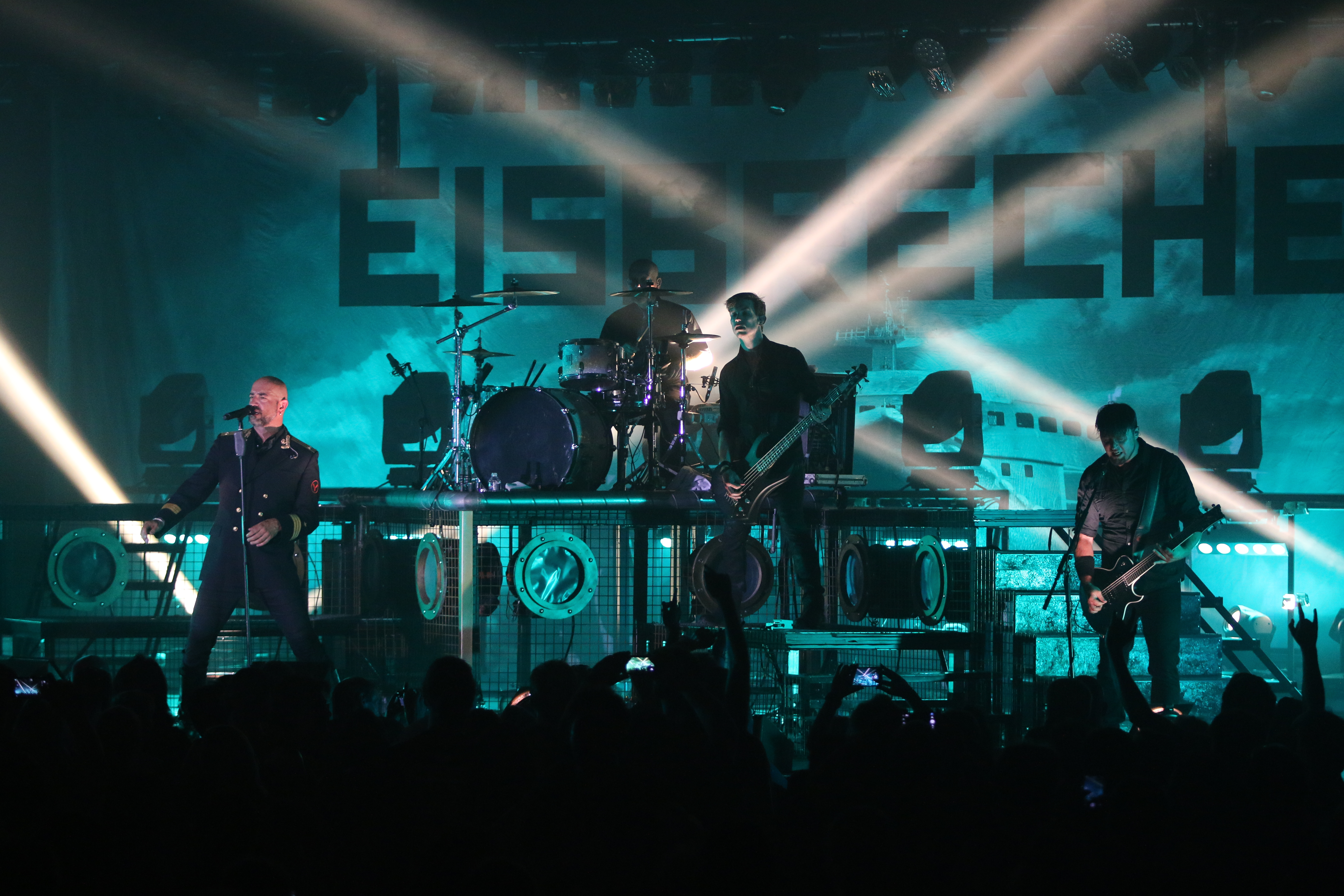 Eisbrecher at the Zelt-Musik-Festival in Freiburg im Breisgau on July 17th, 2016.